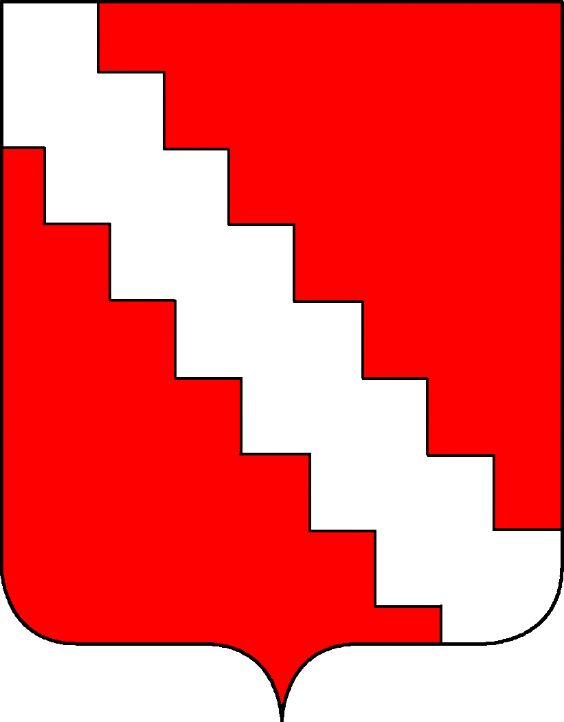 Gradenigo Family coat of arms